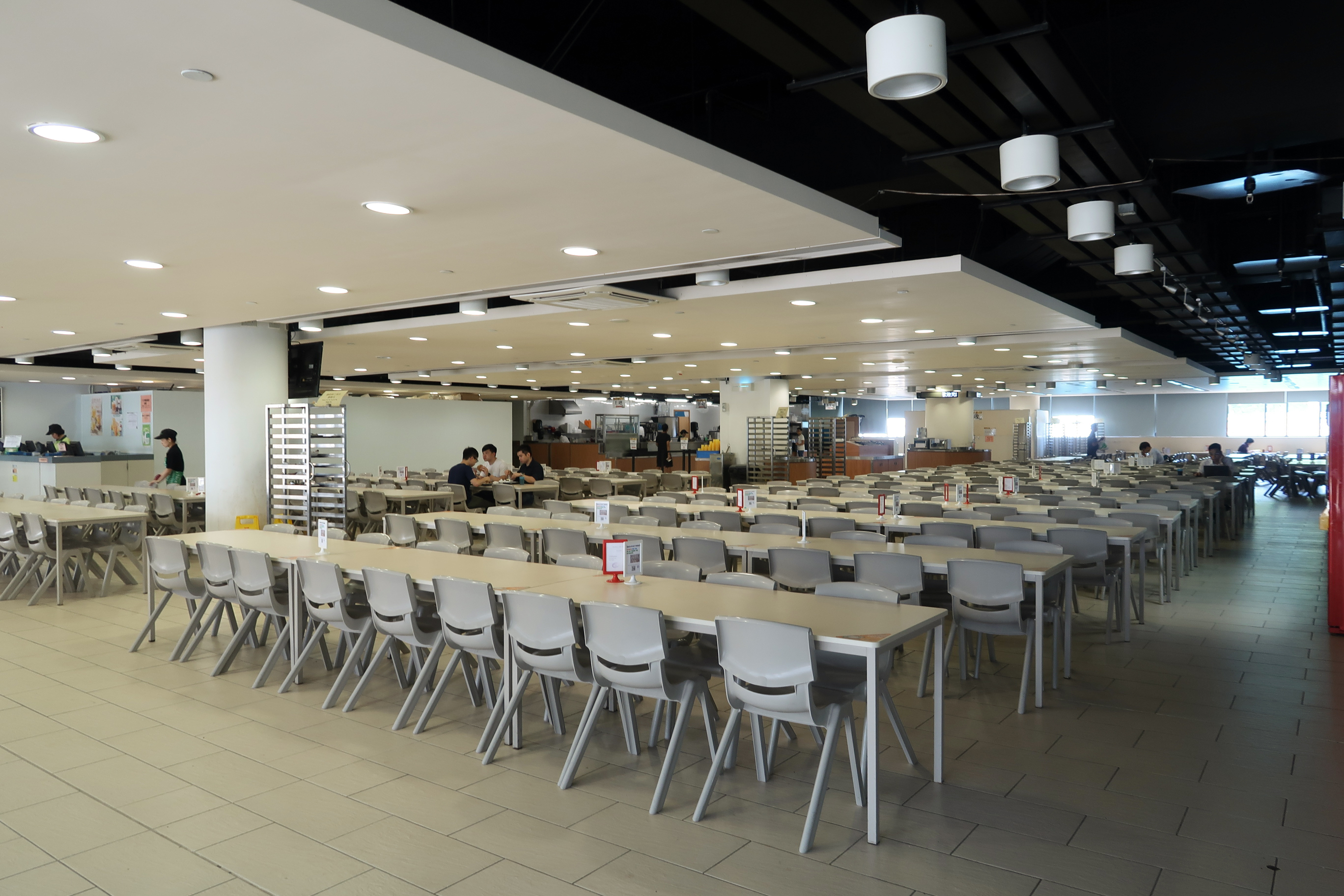 IVE Chai Wan Campus Canteen